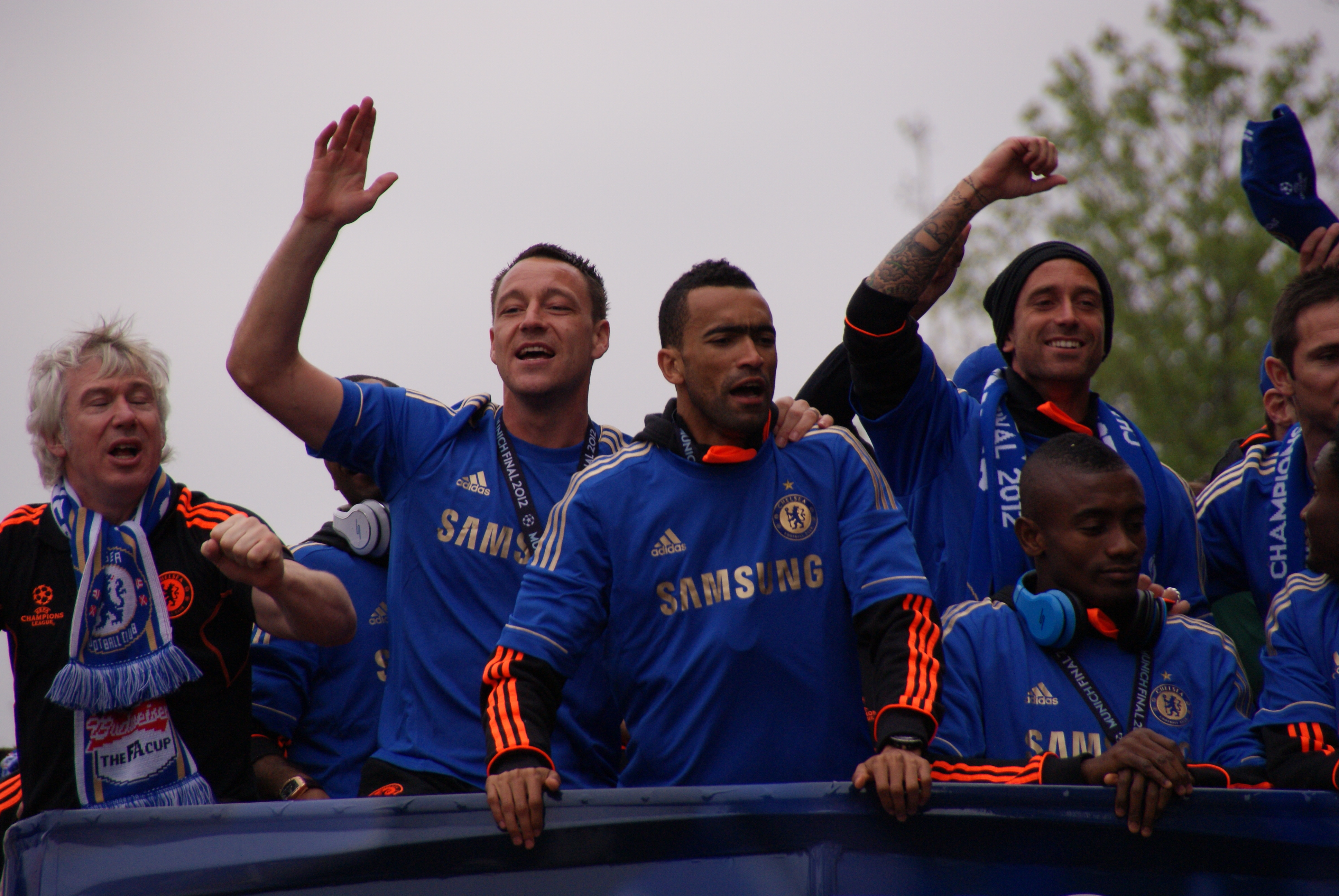 This photo was taken on Sunday 20th May 2012 during the Chelsea Football Club Parade following Chelsea's victory in the European Champions League Final.